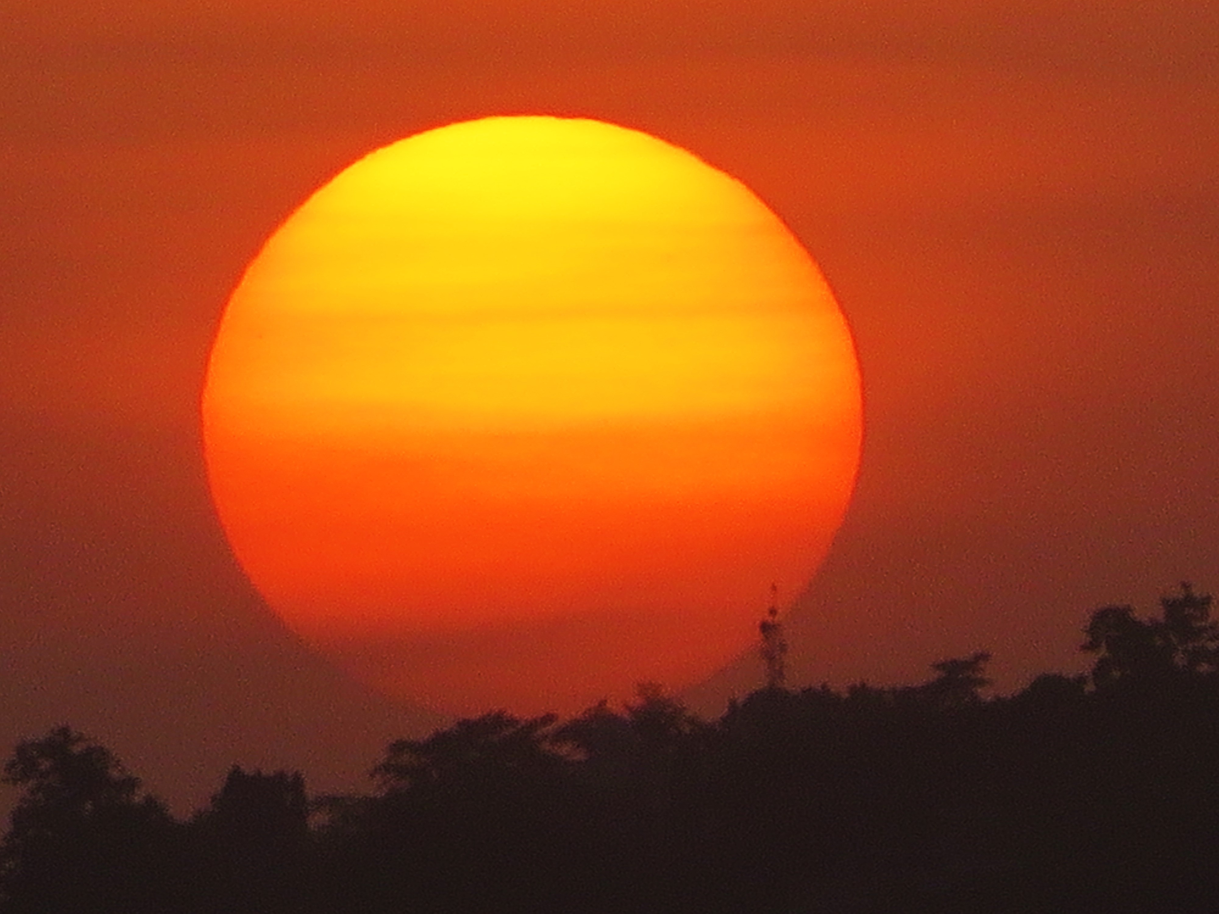 The splendent sunset in the city of Dar es Salaam. This photo has been taken by Prof.Chen Hualin.